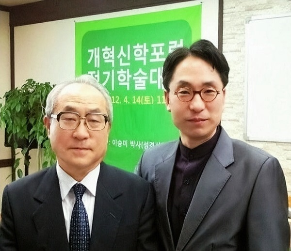 2012 Reformed Theology Forum seminar Dr Lee Seung-Mi (Former president of KTS) Prof Ha Seung-Moo(KPTS president)/(Shooting with the Self-automatic camera)